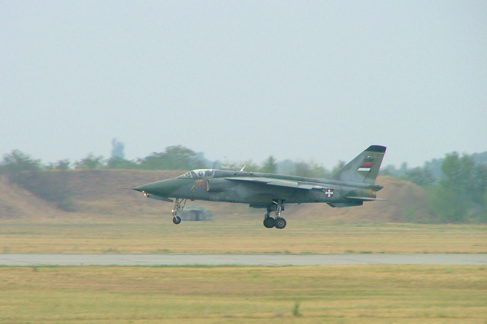 J-22 Orao of Serbian Air Force landing, Kecskemét, 2007.jpg